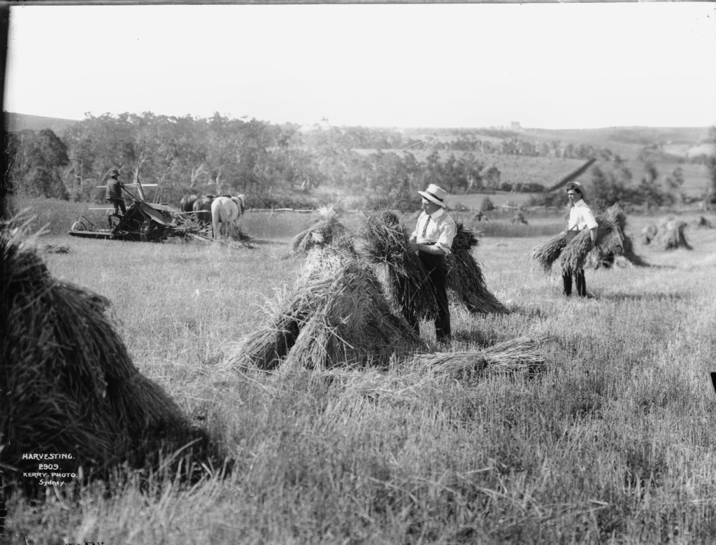 'Rural Life' Pictures from The Powerhouse Museum This file was posted to Flickr by The Powerhouse Museum (See the archive of their website for further information). Many thanks to the Powerhouse Museum for helping release this wonderful material. This tag does not indicate the copyright status of the attached work. A normal copyright tag is still required. See Commons:Licensing for more information.